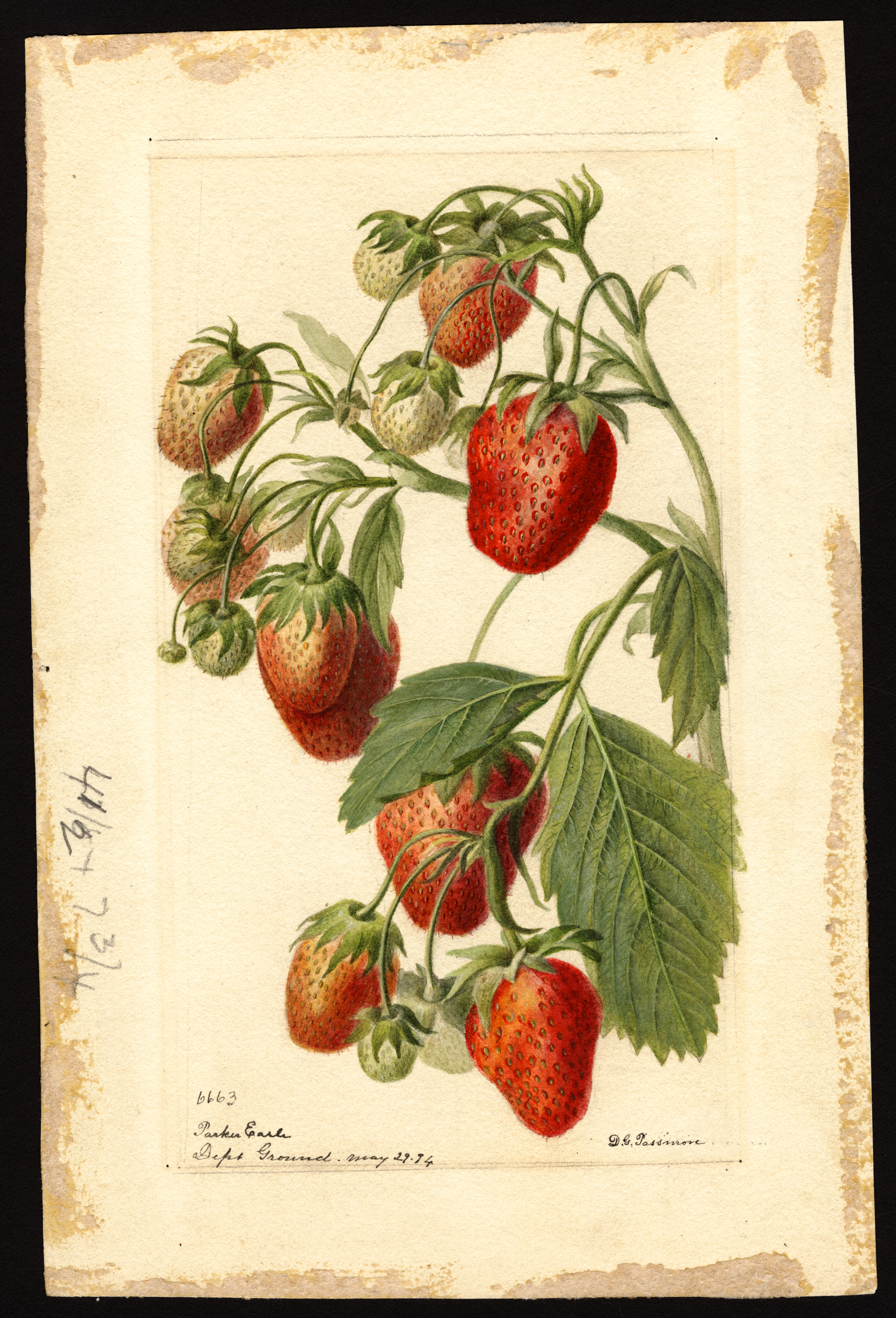 Image of the Parker Earle variety of strawberries (scientific name: Fragaria), with this specimen originating in Washington, D.C., United States. Source: U.S. Department of Agriculture Pomological Watercolor Collection. Rare and Special Collections, National Agricultural Library, Beltsville, MD 20705.